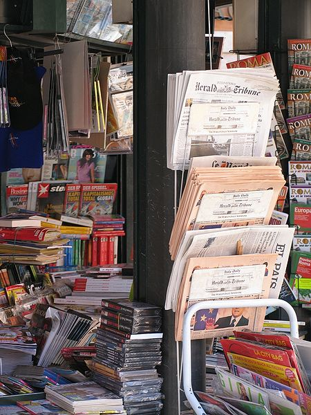 global immigrant news